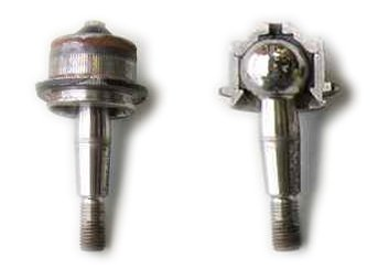 A ball joint and a cross section of one